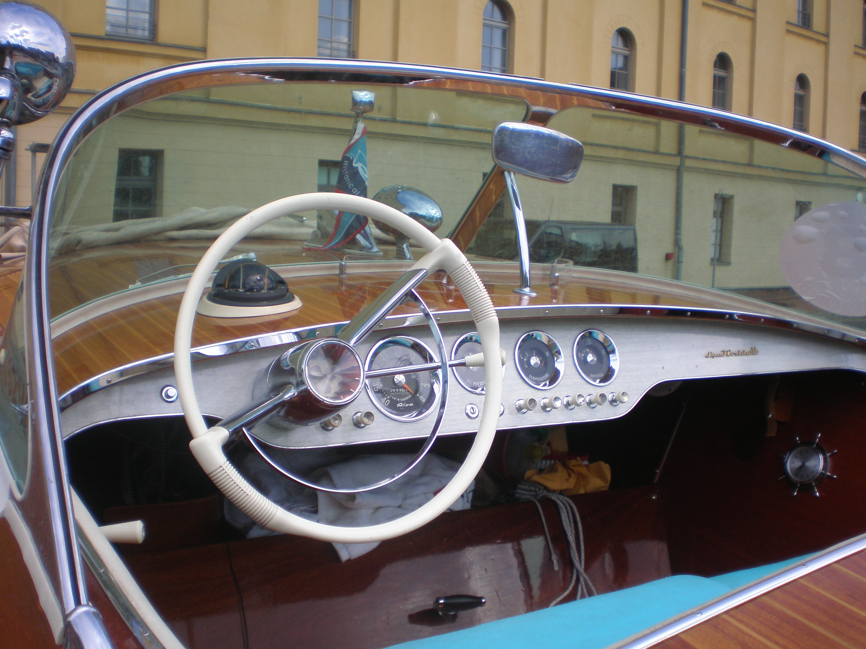 Riva boat cockpit, super Florida